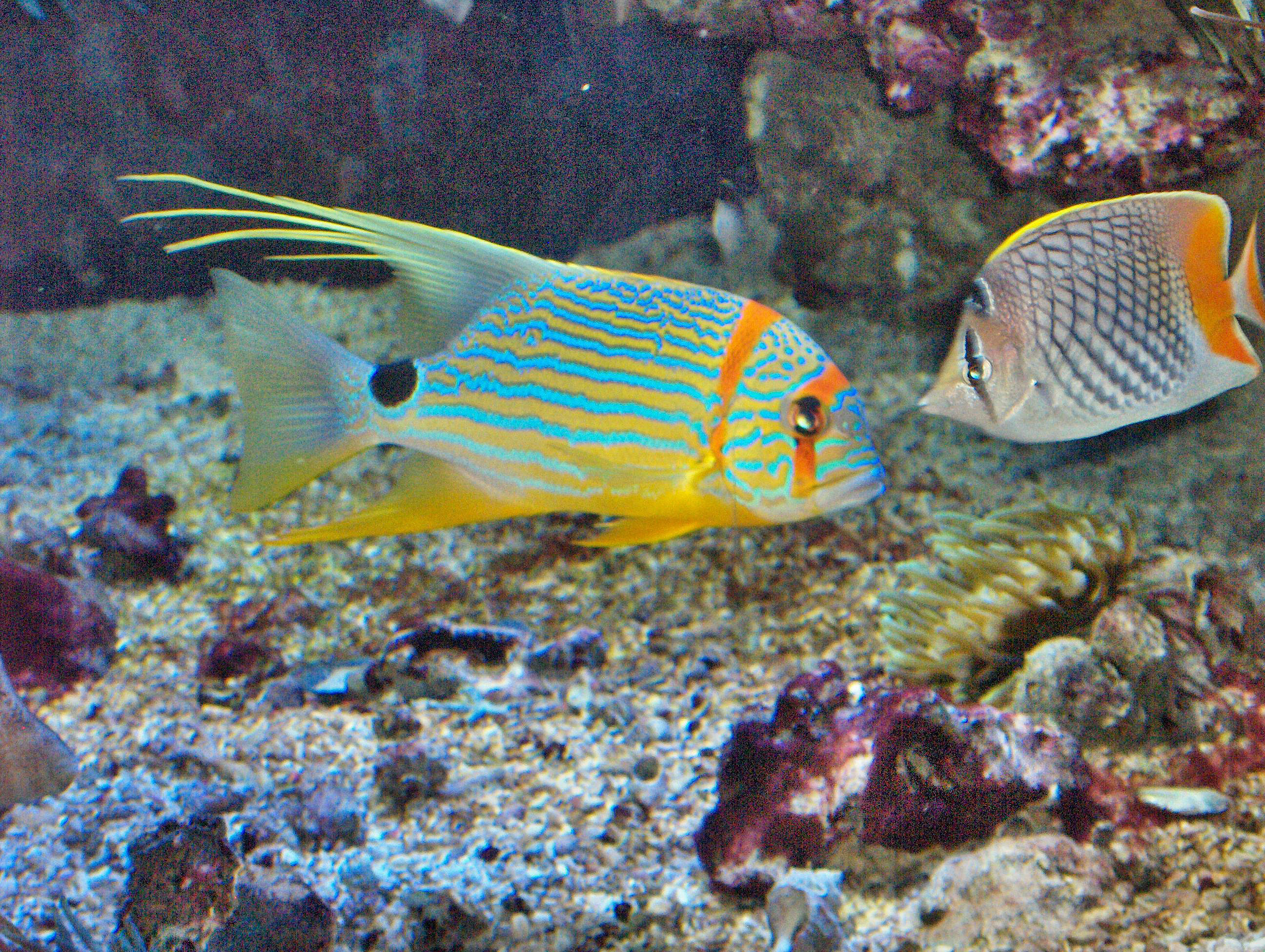 Blue lined sea-bream (Symphorichthys spilurus);Musée Océanographique de Monaco